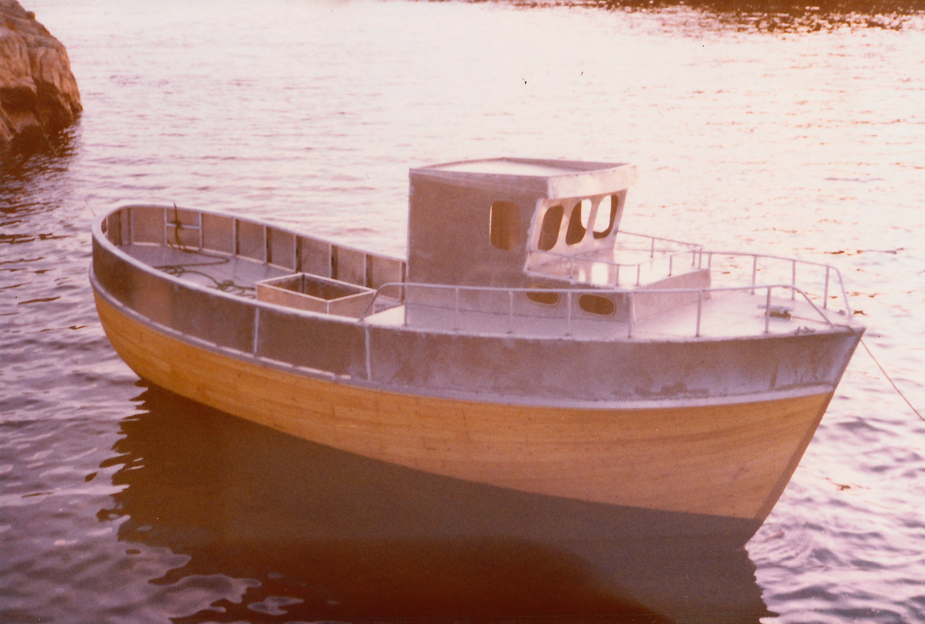 Nybygget sjark i Kleppeviken